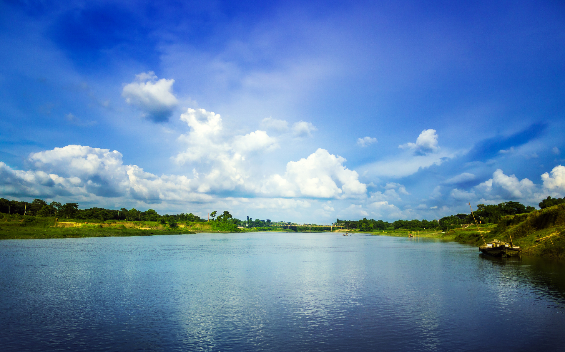 Gumti River, kaptan Bazar, Comilla